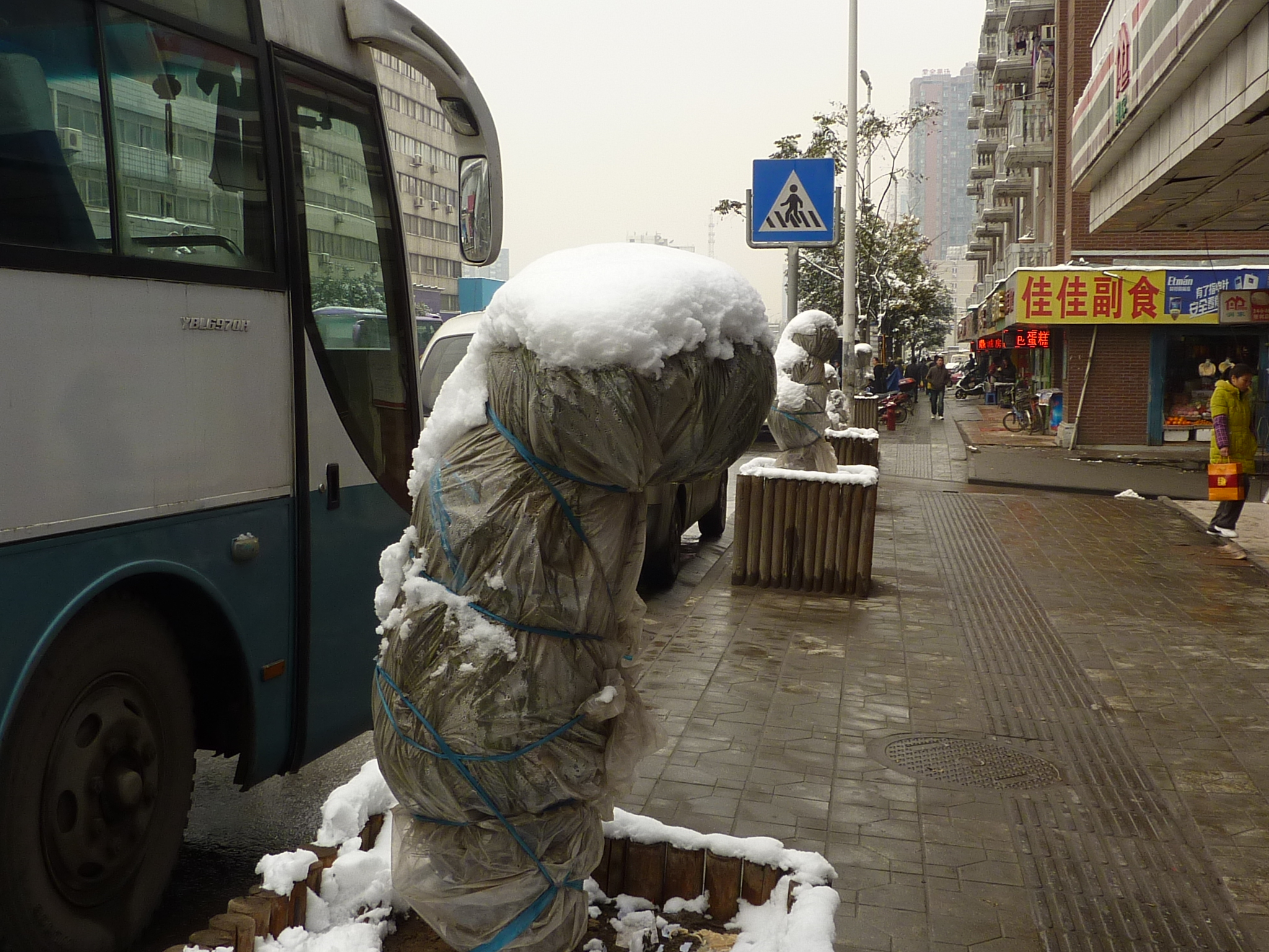 Tender plants (cycads, I think) wrapped with a tarp to help them survive the winter in Wuhan, China